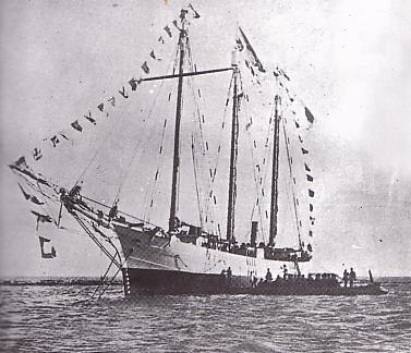 Kainan-Maru